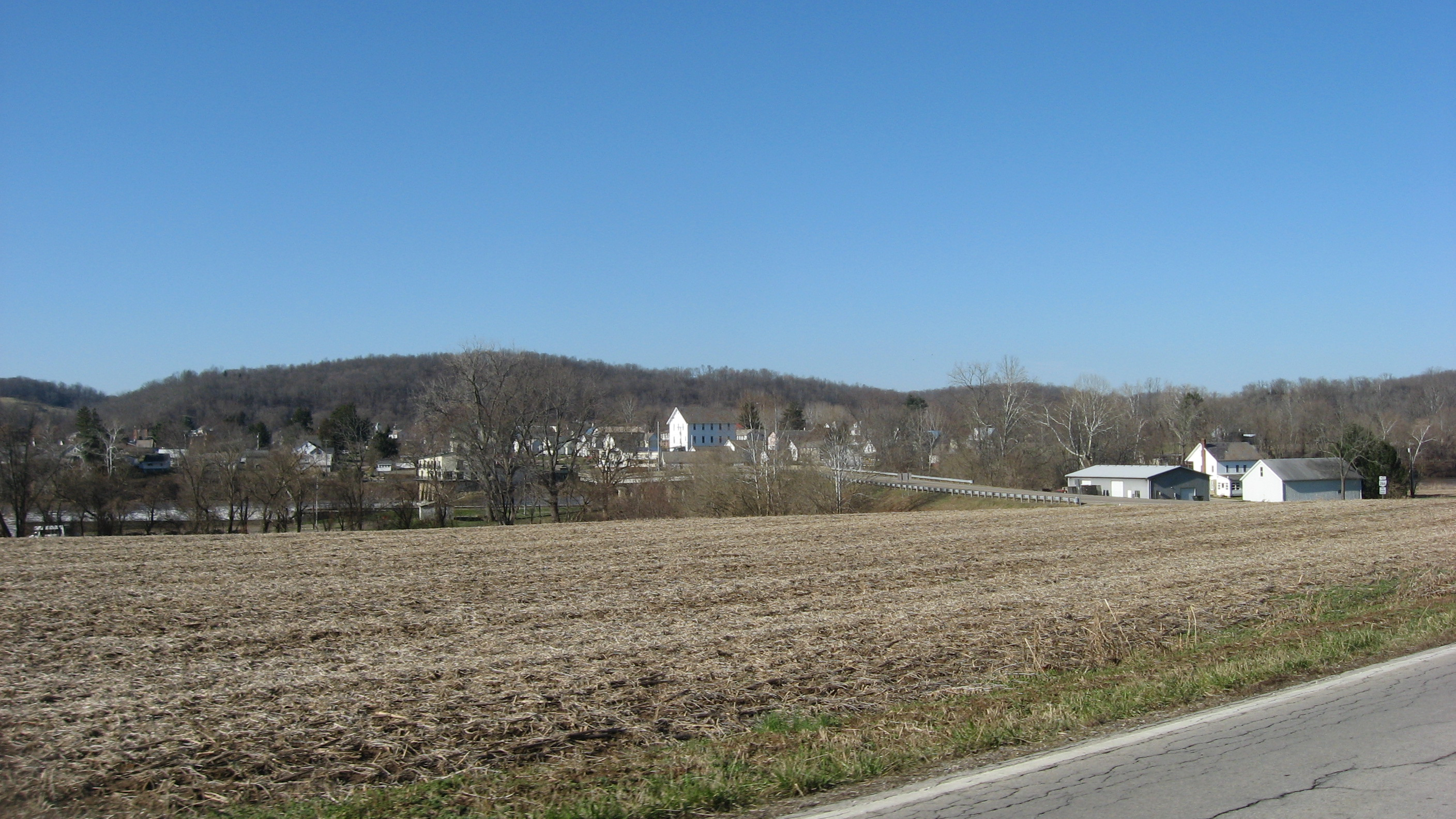 Looking westward across the Muskingum River toward Stockport, Ohio, United States. Toward the right side is the Stockport Bridge, which carries State Route 266 across the river; it was constructed in 1979.